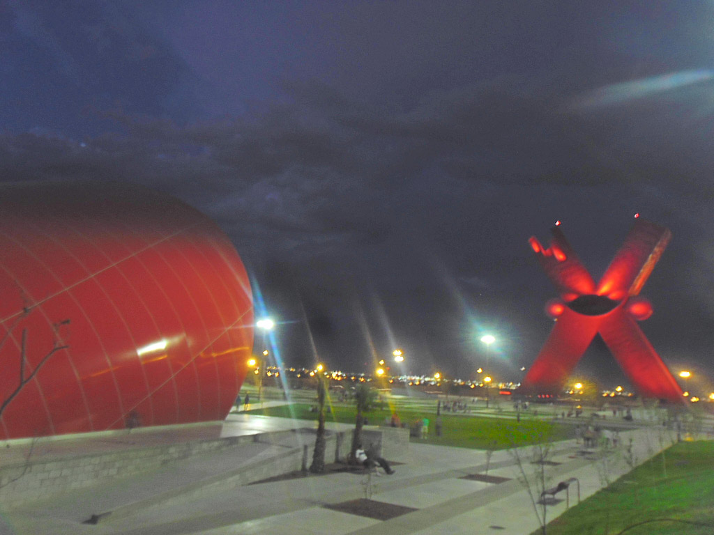 X de Seb